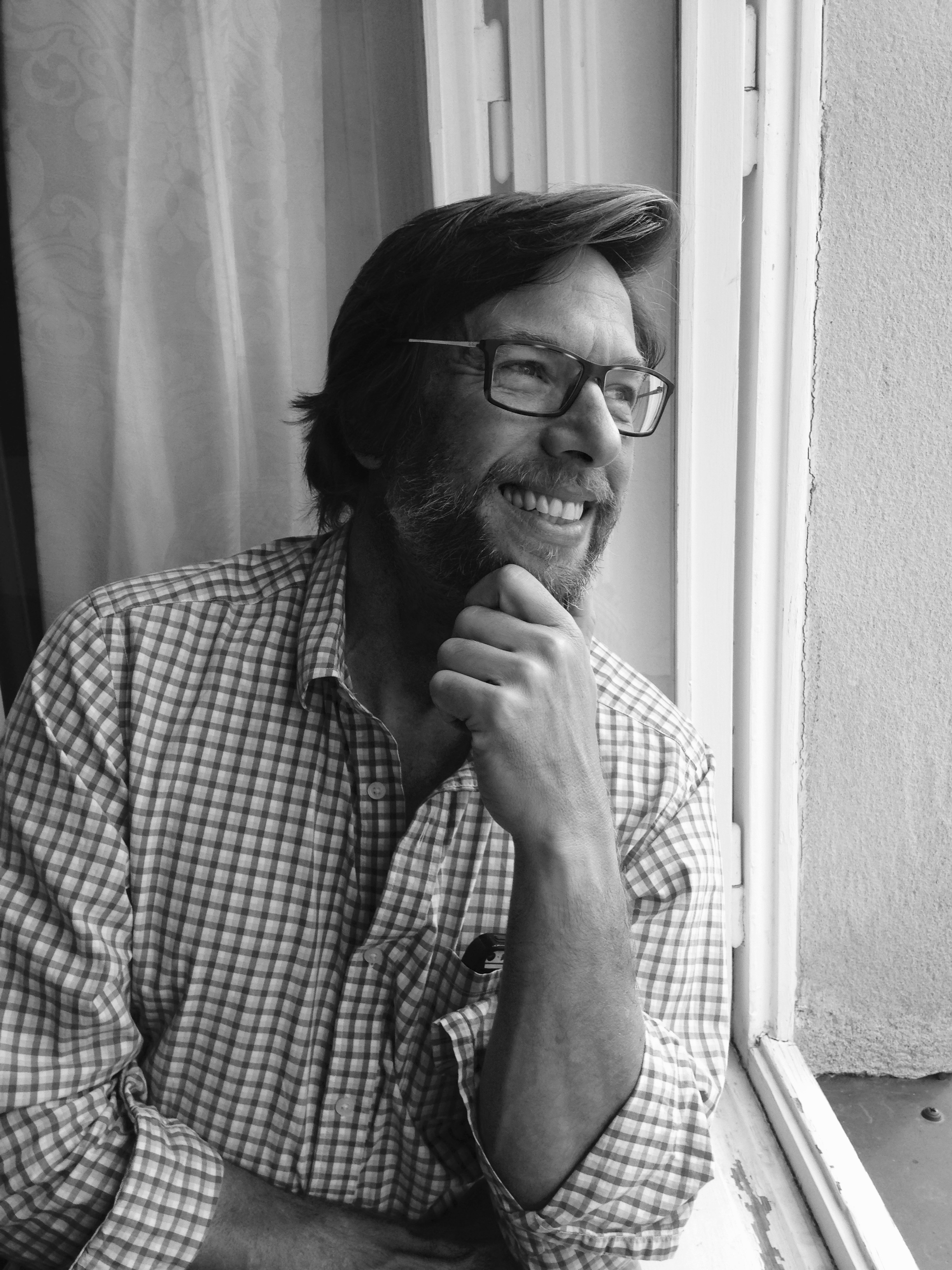 Picture of Bruce Appleyard